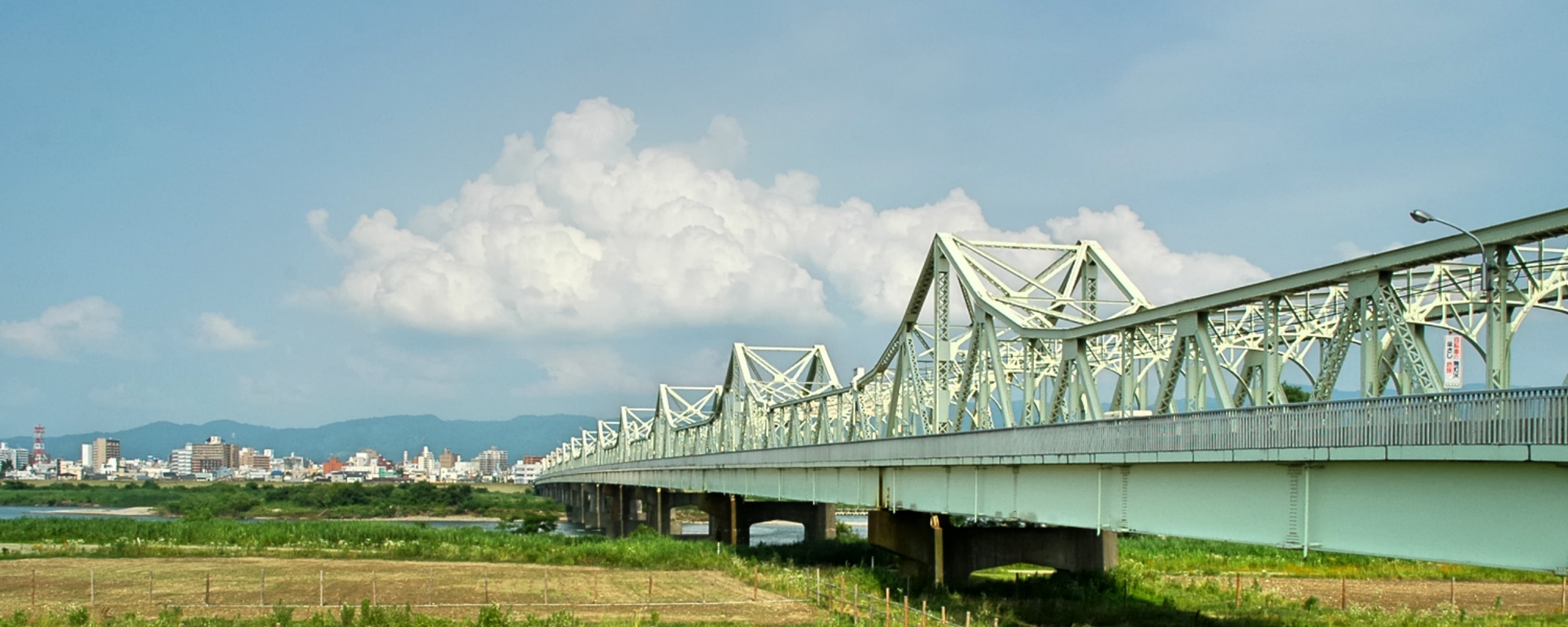 Chōsei Bridge, Nagaoka, Niigata, Japan